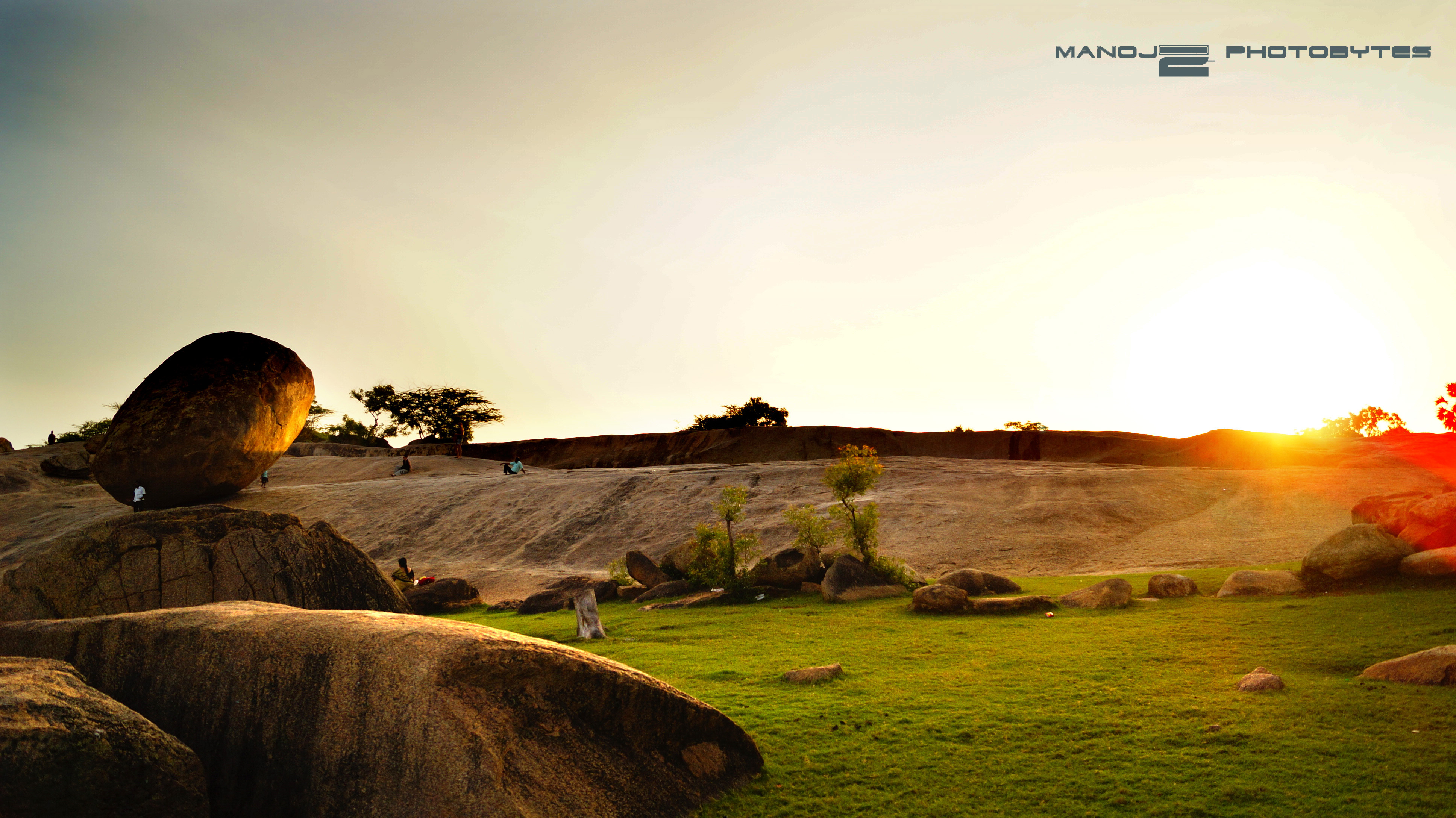 Sunset at Mahabalipuram